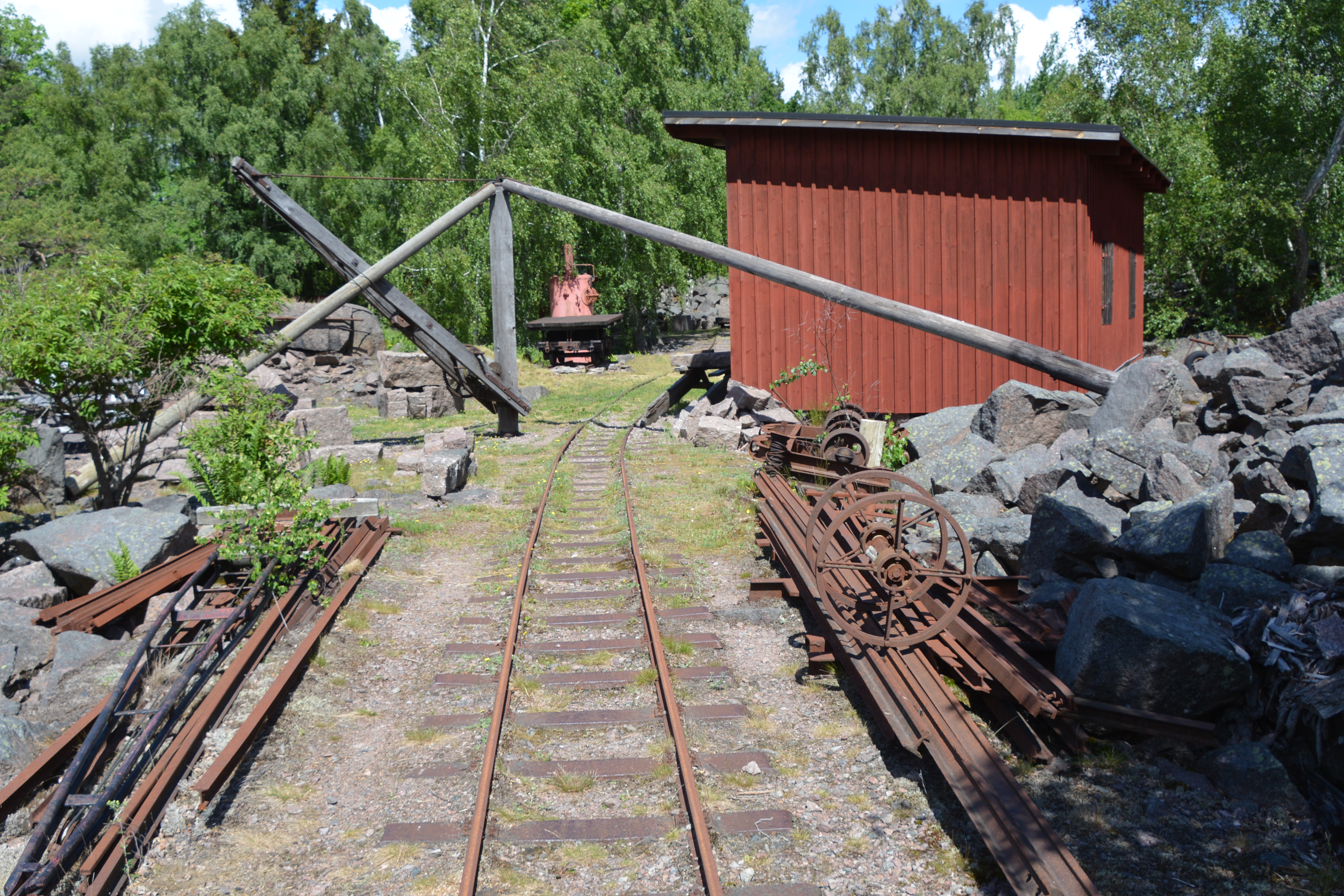 Ångkransbrottet i Vånevik